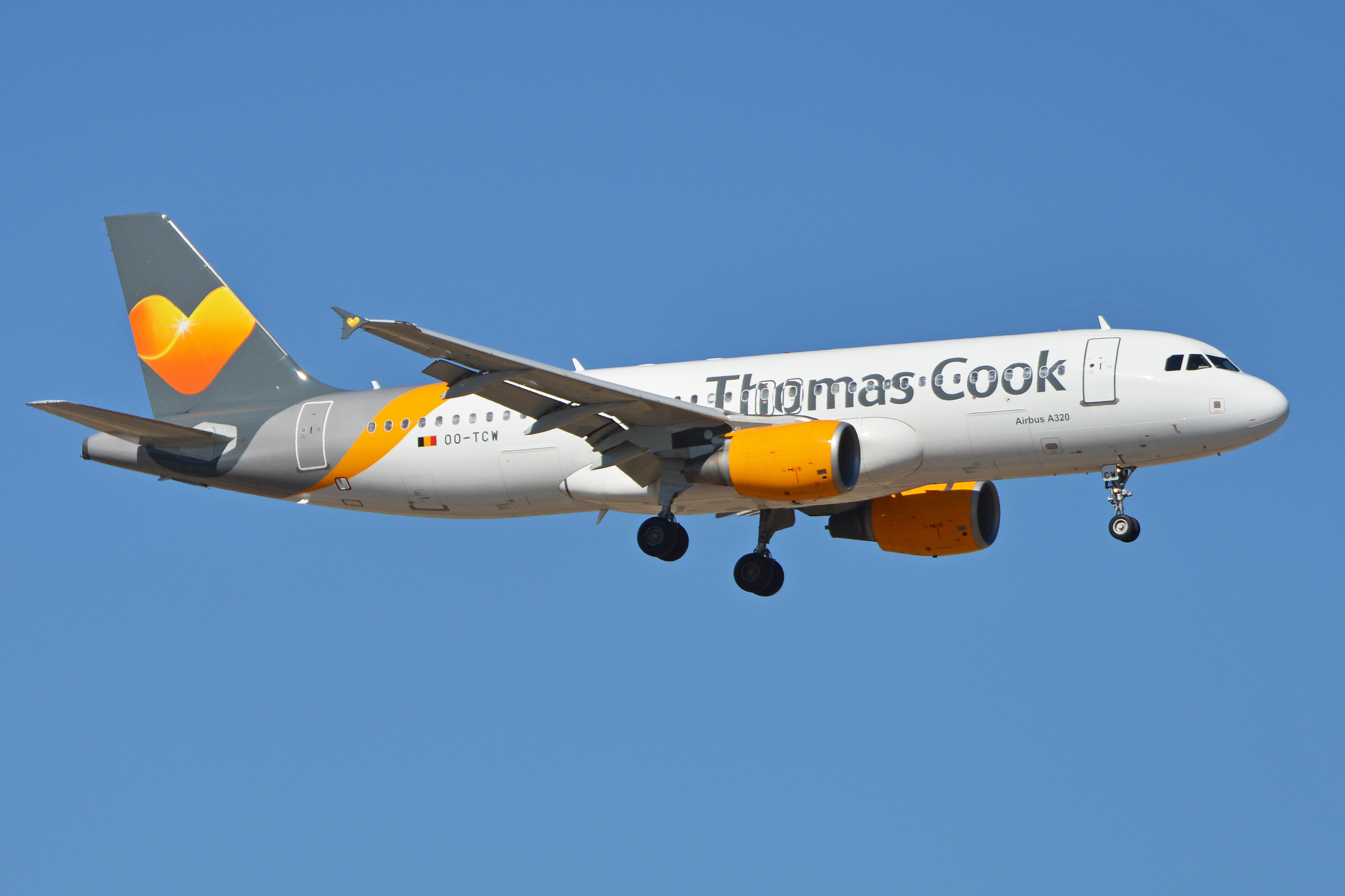 c/n 1954. Built 2003. Operated by Thomas Cook Airlines Belgium. Arriving on flight TCW1508/1WZ from Brussels. Tenerife South Airport, Canary Islands. 20-1-2016